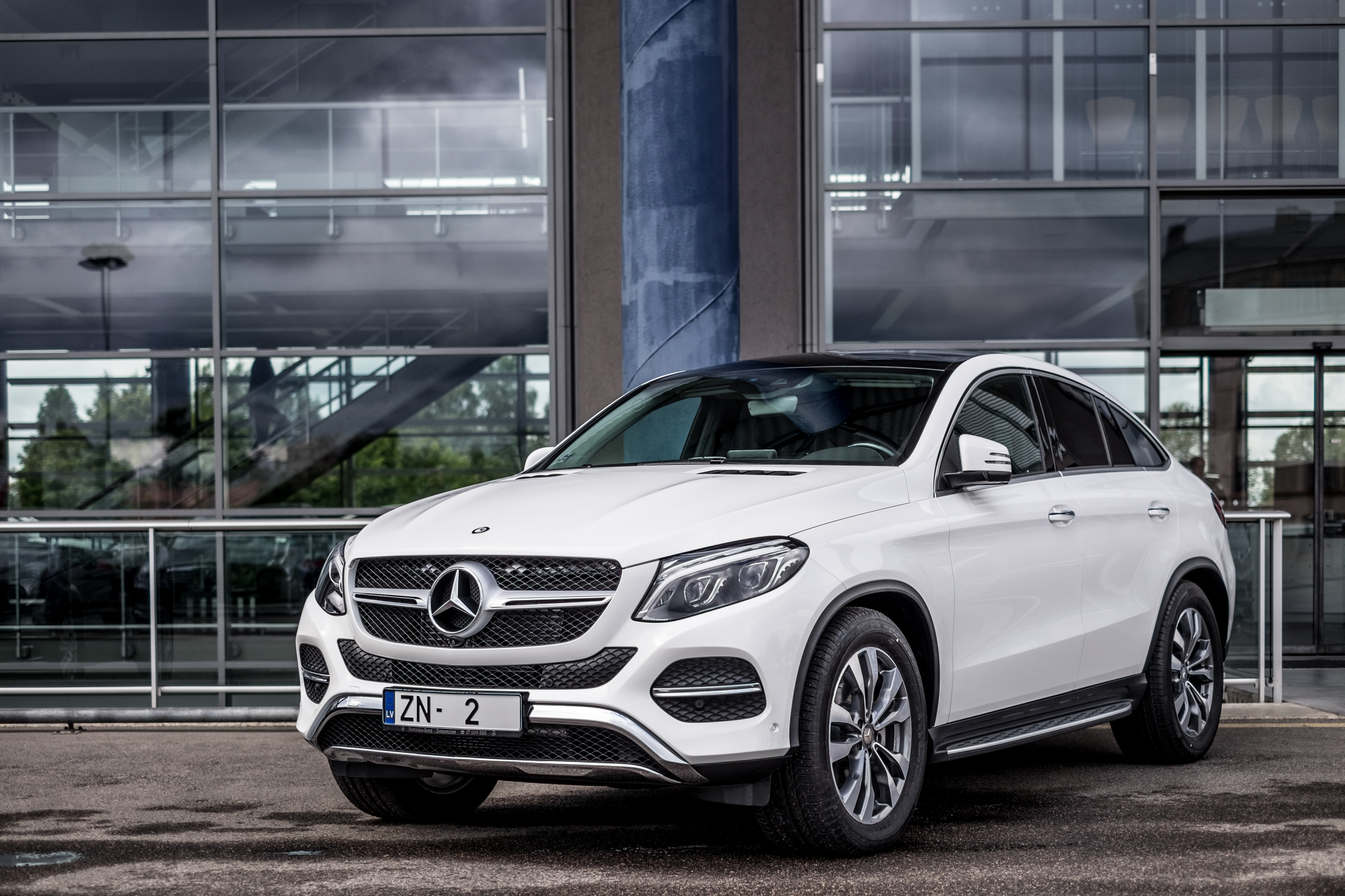 Mercedes GLE Coupe